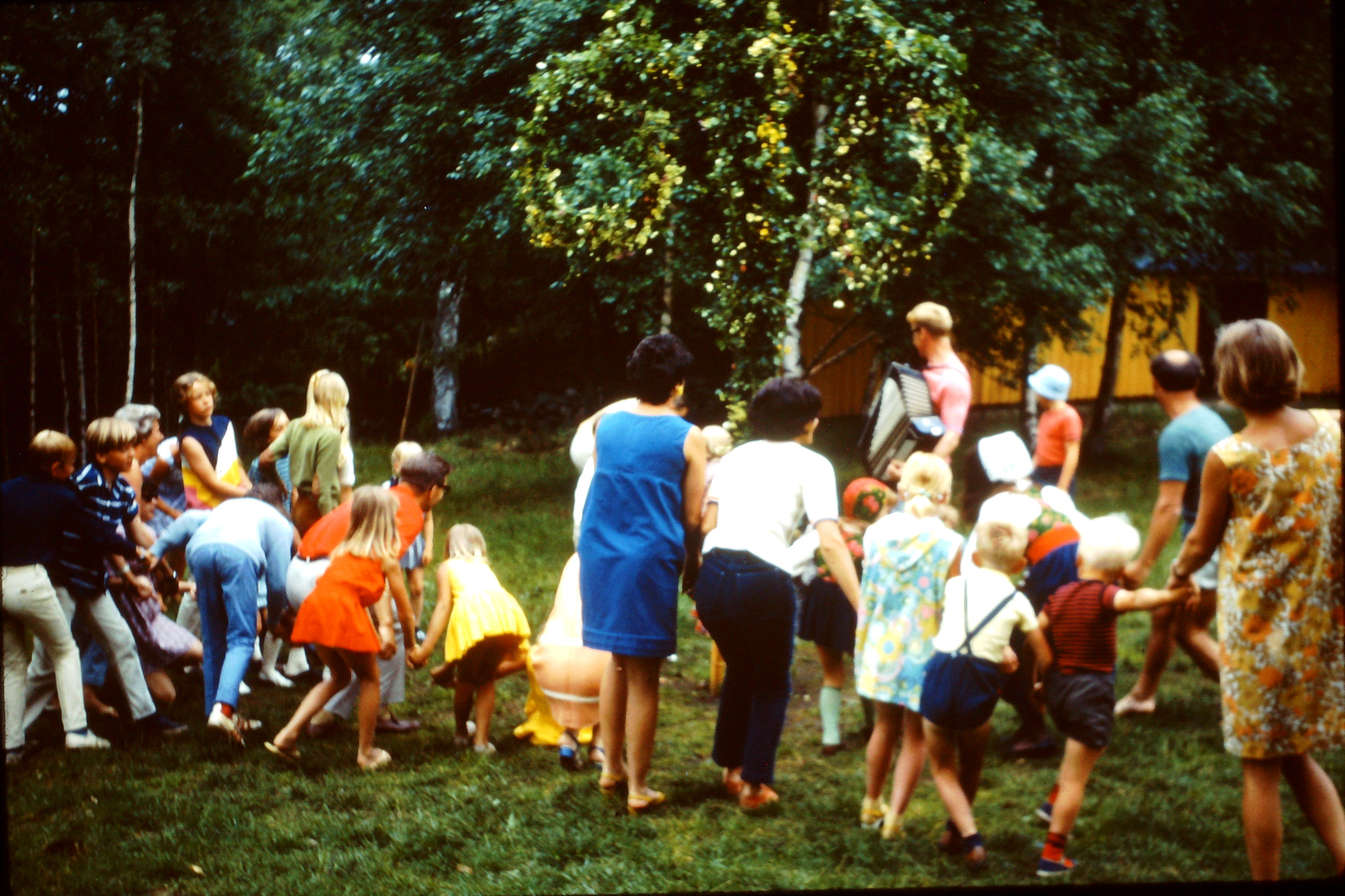 Midsummer celebrations at Årsnäs, which was started in 1963 as an intentional community on the west coast of Sweden, near Kode. The ownership of the 15 houses has since passed on through generations among the founding families. The community celebrates Midsummer yearly, starting by dances around the Maypole in the early afternoon, followed by the houses competing in games with different tasks each year, but often including e.g. nail hammering, log balancing, and darts. In the evening there is a dinner at the dance floor by the meadow including the year's first potatoes, soused herring and pickled herring, chives, sour cream, the first strawberries of the season, as well as beer and snaps for the grown-ups. All these images are scanned diafilms originally taken by Karin Aasma and Felix Aasma.